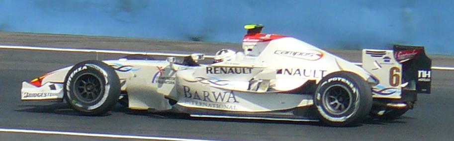 Lucas Di Grassi driving for Campos Grand Prix at the Valencia round of the 2008 GP2 Series season.